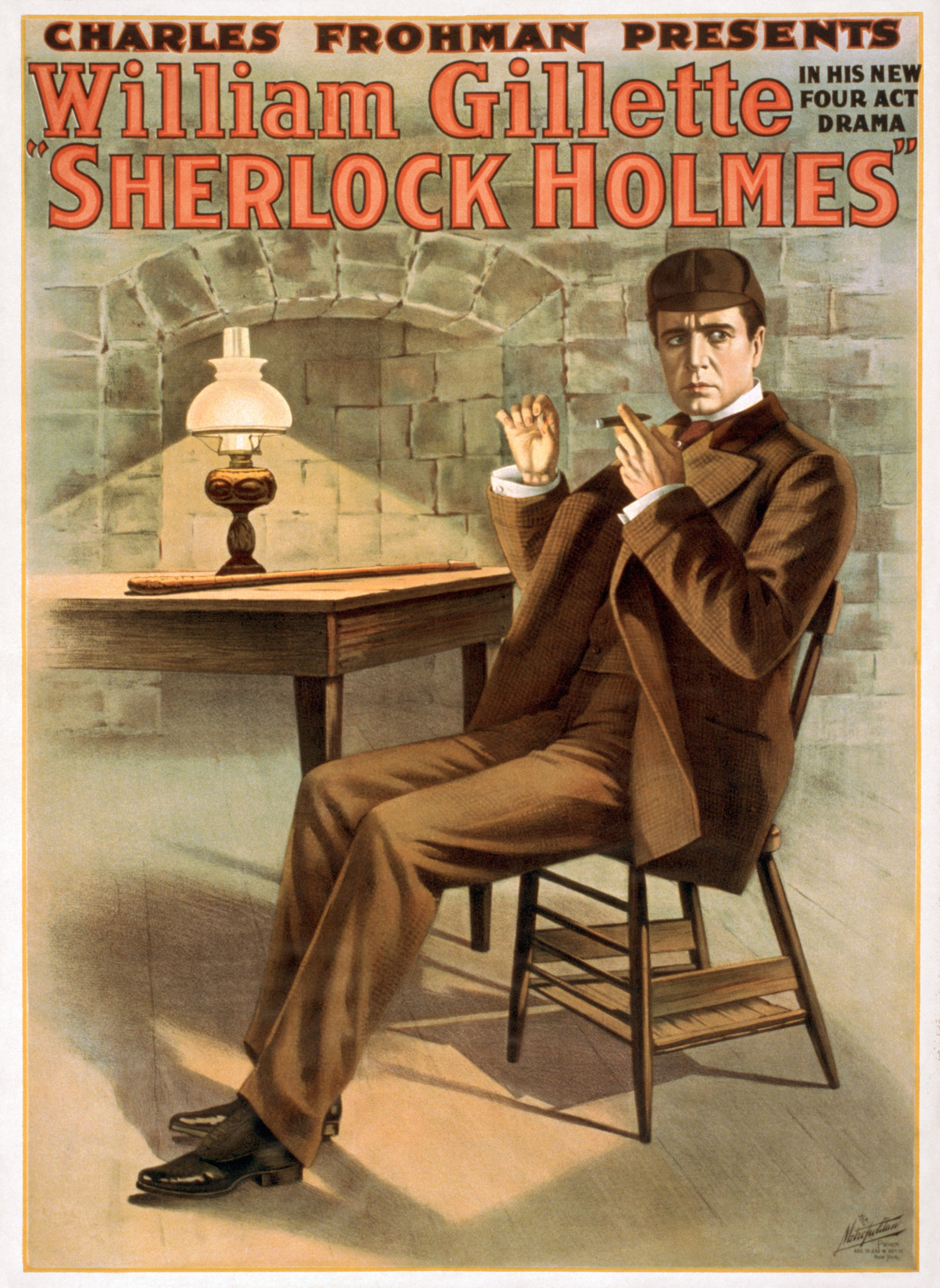 Title Charles Frohman presents William Gillette in his new four act drama, Sherlock Holmes Other Title Sherlock Holmes. Medium 1 print (poster) : lithograph, color ; 103 x 77 cm. Reproduction Number LC-USZC2-1459 (color film copy slide) LC-USZ6-497 (b&w film copy neg.) Rights Advisory No known restrictions on publication. Call Number POS - TH - 1900 .S54, no. 4 (C size) [P&P] Repository Library of Congress Prints and Photographs Division Washington, D.C. 20540 USA Notes D6400 U.S. Copyright Office Created by "The Metropolitan Print., 222 to 232 W. 26th St., New York." Subjects Gillette, William,--1853-137--Performances. Holmes, Sherlock (Fictitious character) Furniture. Detectives. Smoking. Theatrical productions. Format Lithographs--Color. Theatrical posters--American. Collections Posters: Performing Arts Posters Part of Theatrical Poster Collection (Library of Congress) Bookmark